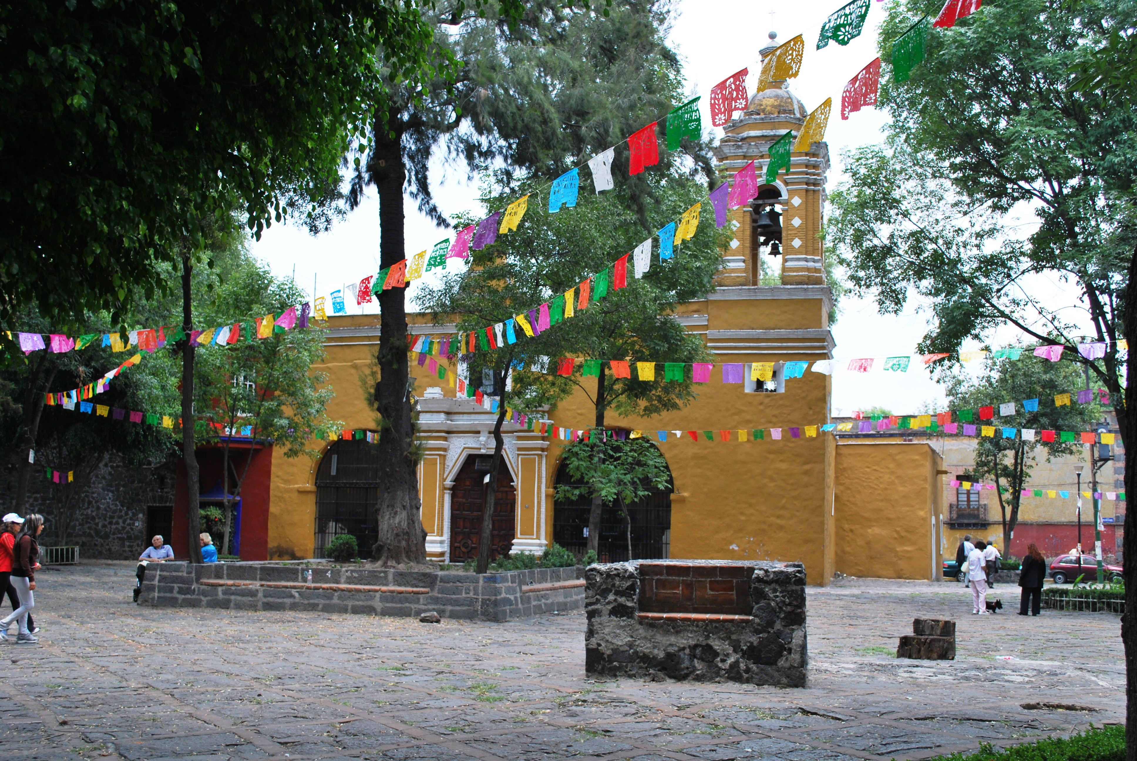 Santa Catalina Church located on Avenida Sosa in the Coyoacan borough of Mexico City